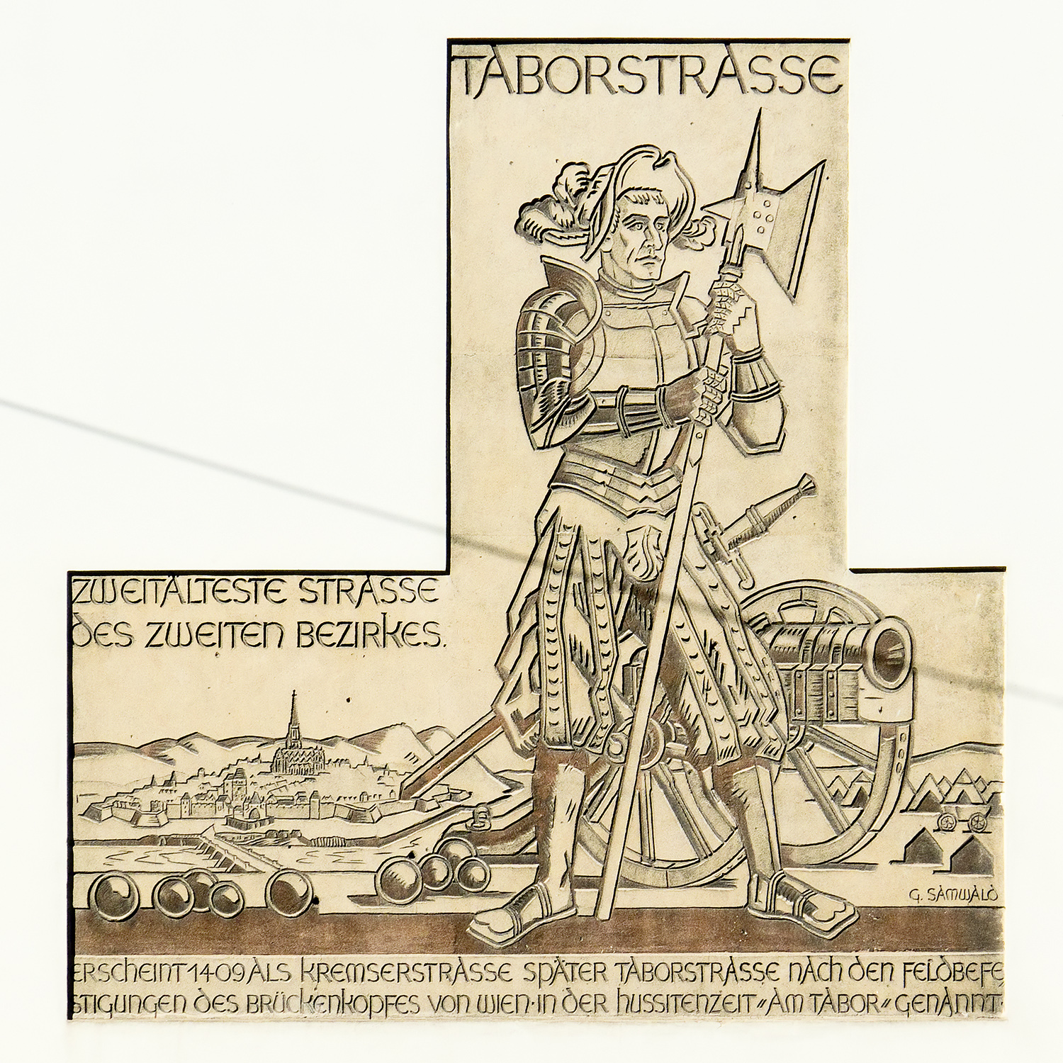 Building Taborstraße 19, Karmeliterkirche, Vienna 2